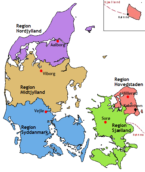 Location map of the Regions in Denmark. Created by User:Kazubon based on Image:Map DK Regions.png created by User:Valentinian who released the latter image under PD.